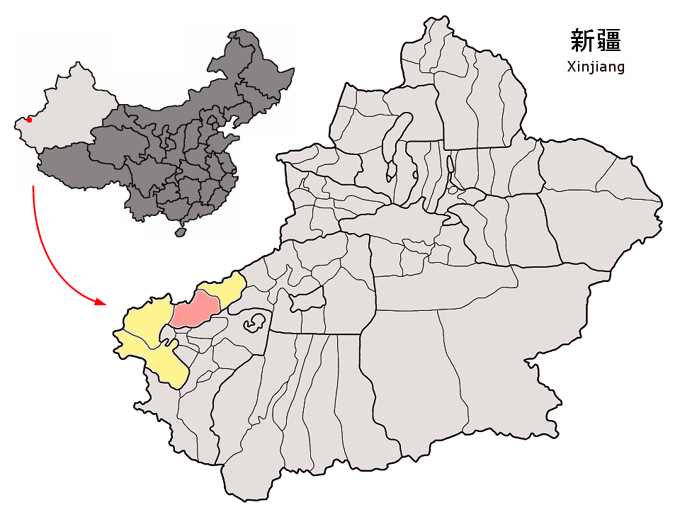 Location of Artux City (pink) and Kizilsu Prefecture (yellow) within Xinjiang autonomous region of China Map drawn in september 2007 using various sources, mainly : Xinjiang Uygur autonomous region administrative regions GIS data: 1:1M, County level, 1990 Xinjiang Counties map from